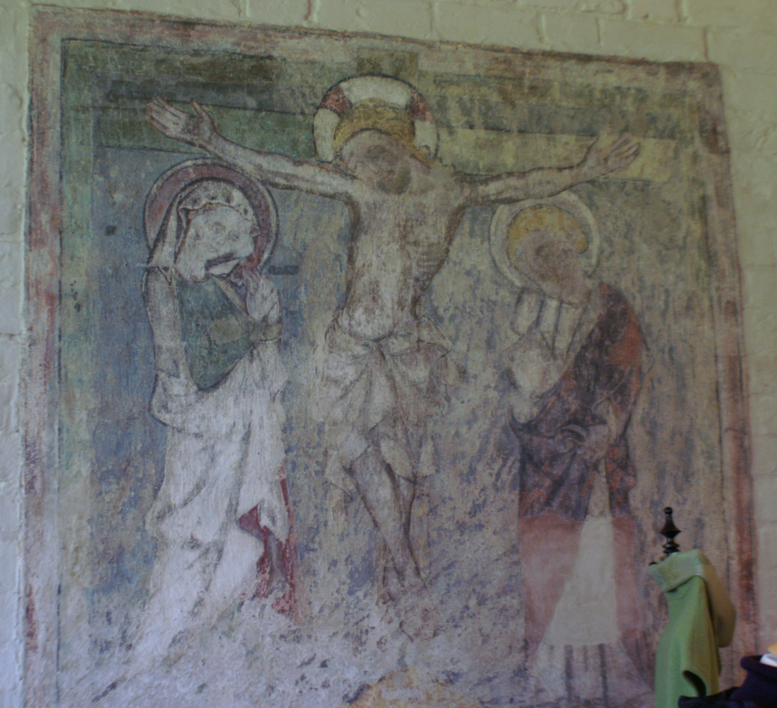 Graukloster in Schleswig.